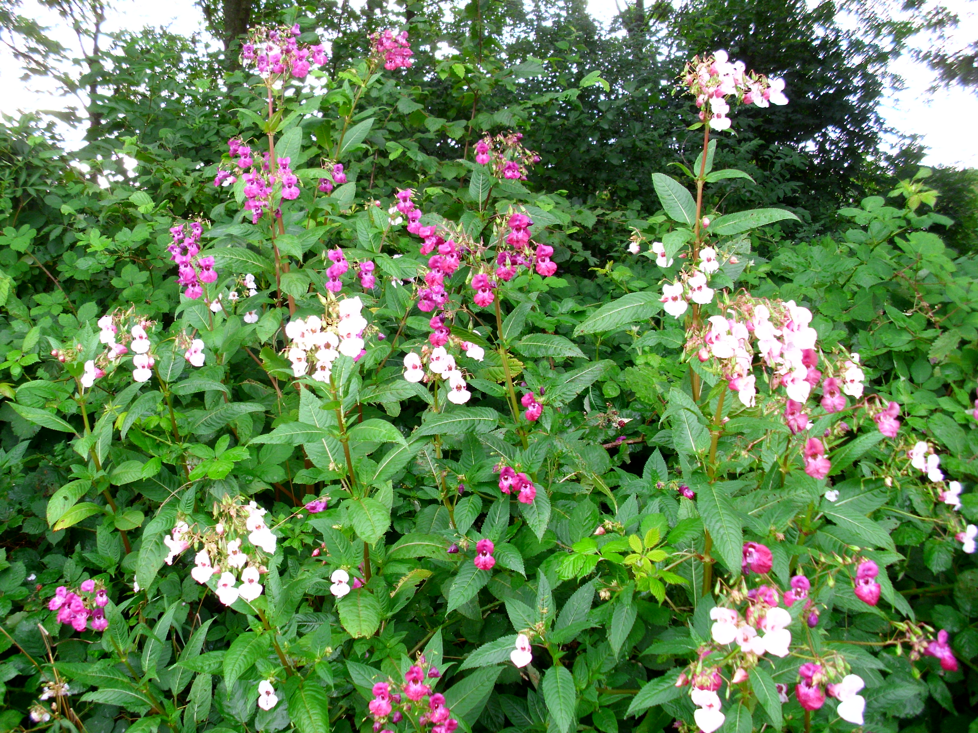 Flowering Impatiens glandulifera